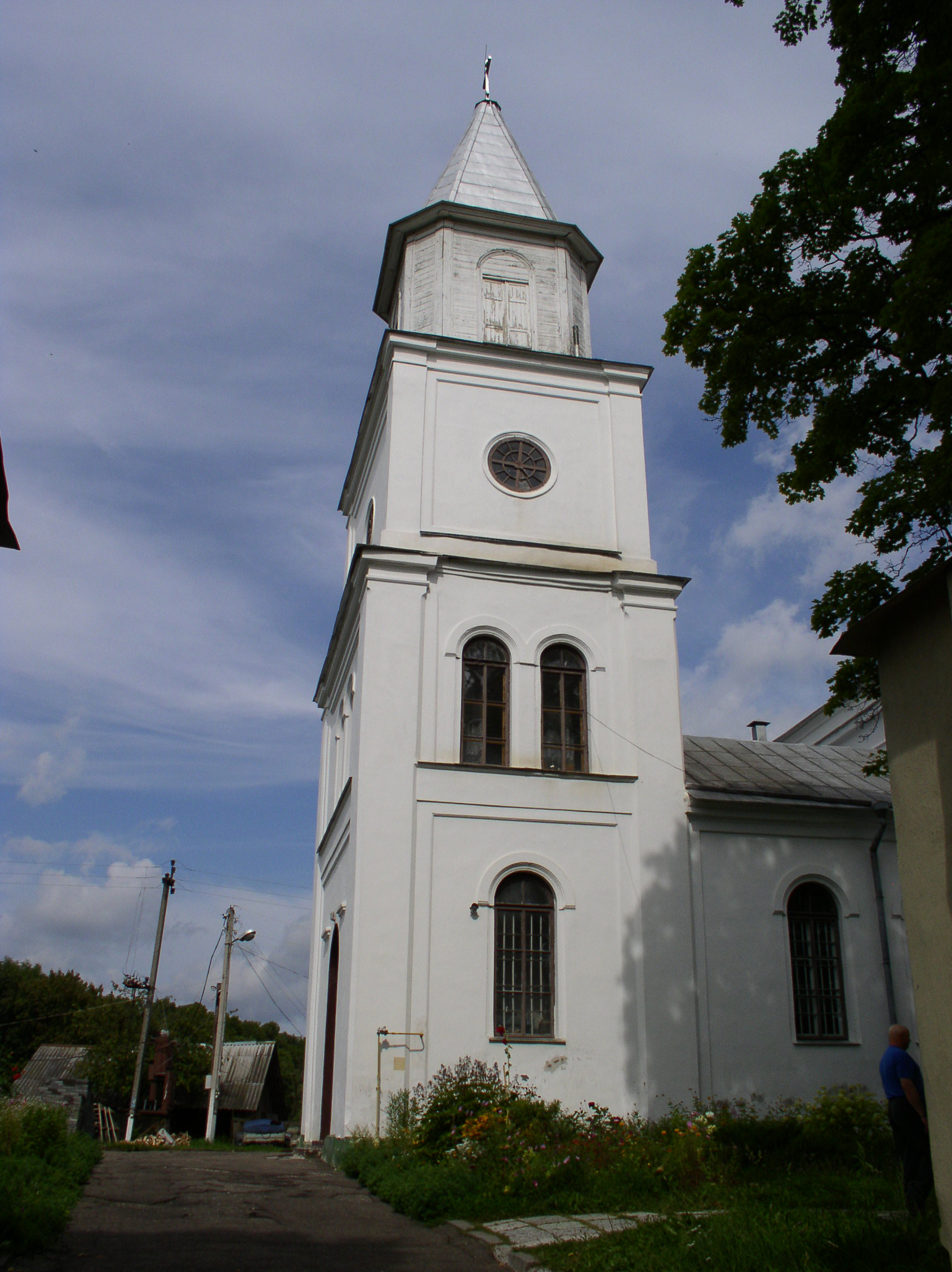 Church of Saint Nicholas. Lahoisk, Belarus.